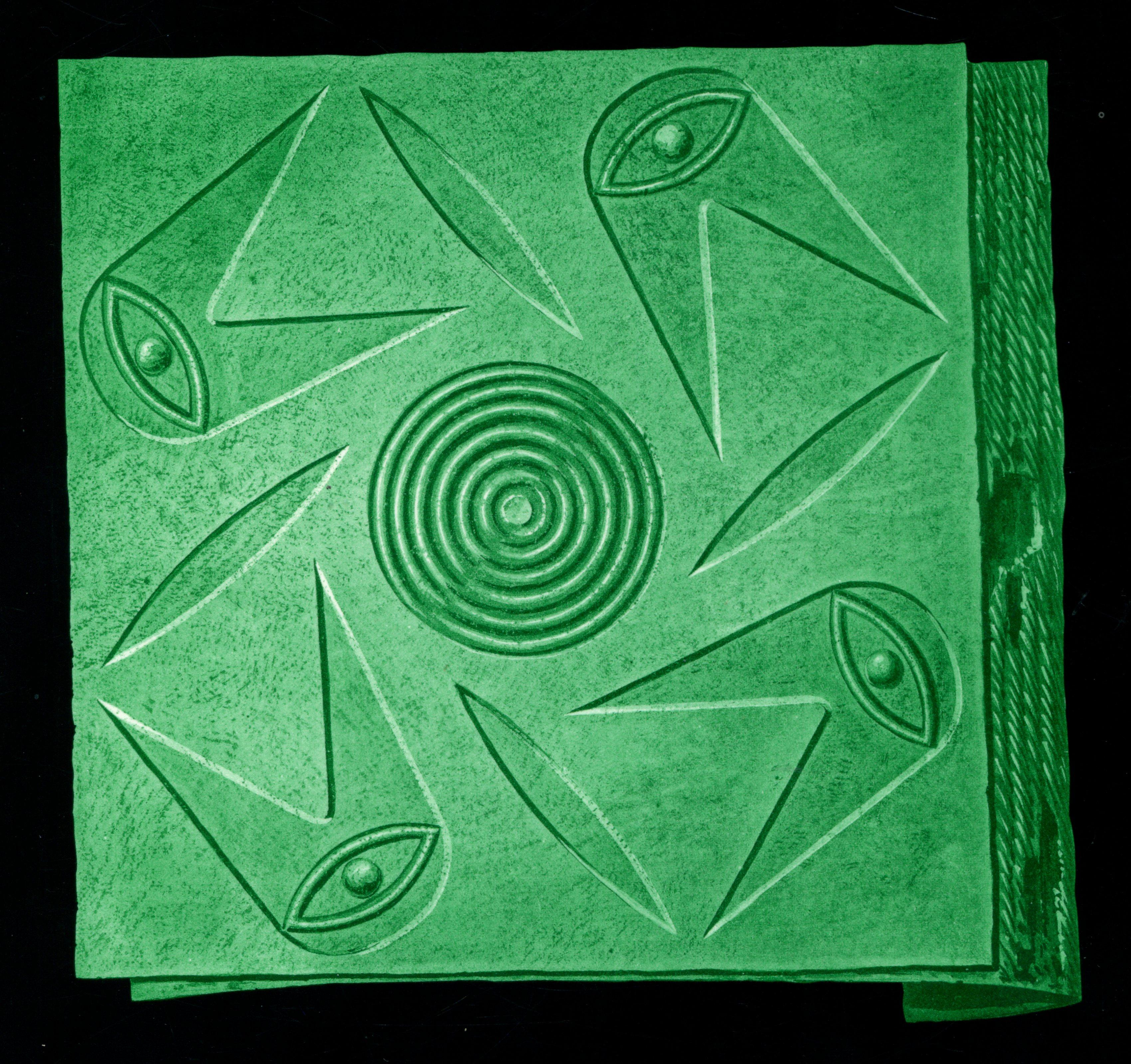 Copper plate excavated by Clarence Bloomfield Moore from the mound at the Mount Royal archaeological site in Florida in 1893.